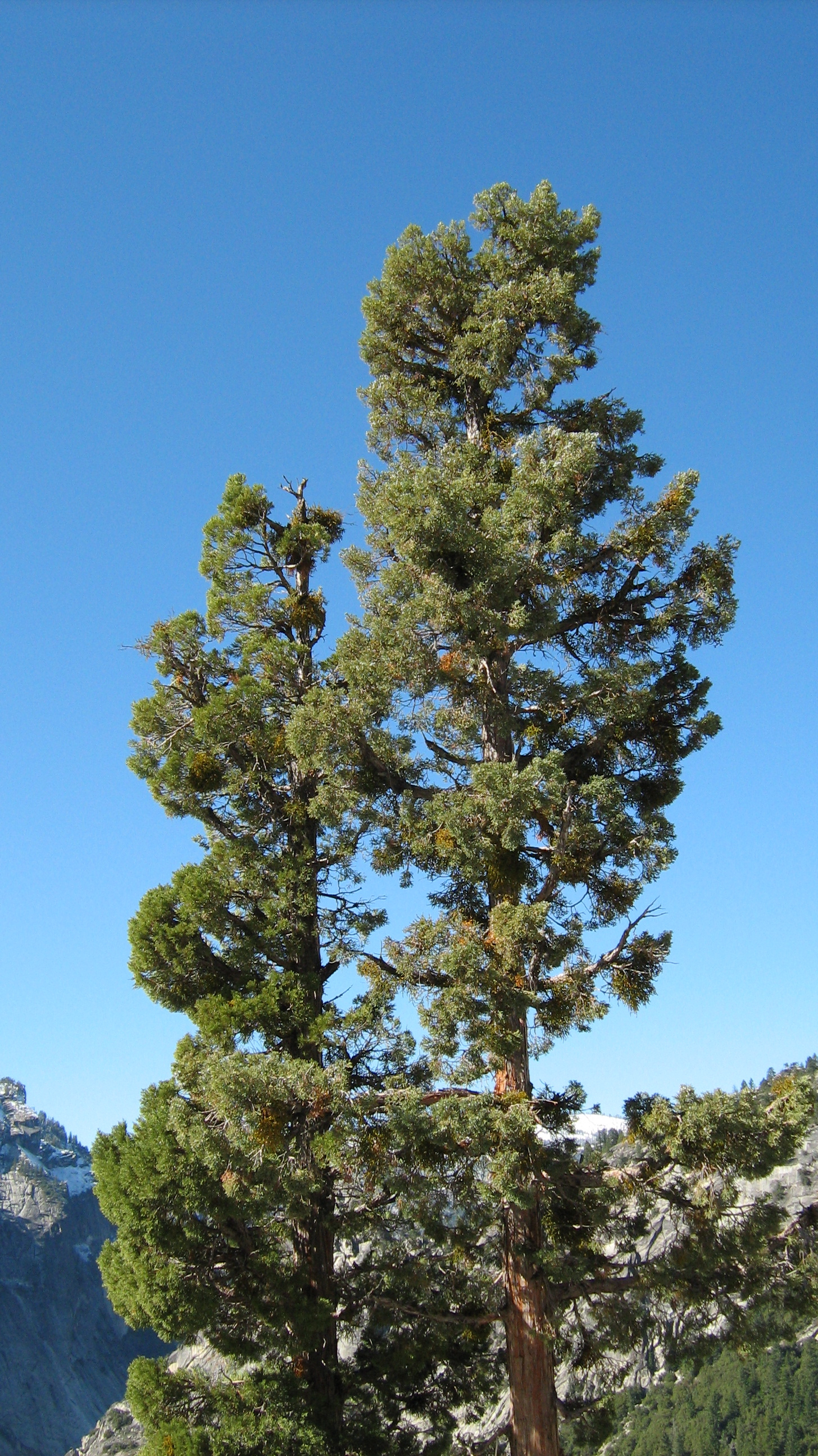 Calocedrus decurrens, Yosemite NP, California